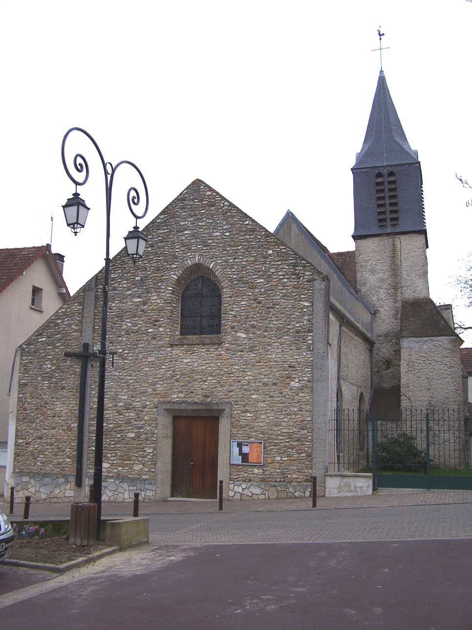 Church of Buc (Yvelines, France)